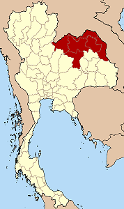 Map of Thailand showing the extent for the Monthon Udon Thani as of 1915.